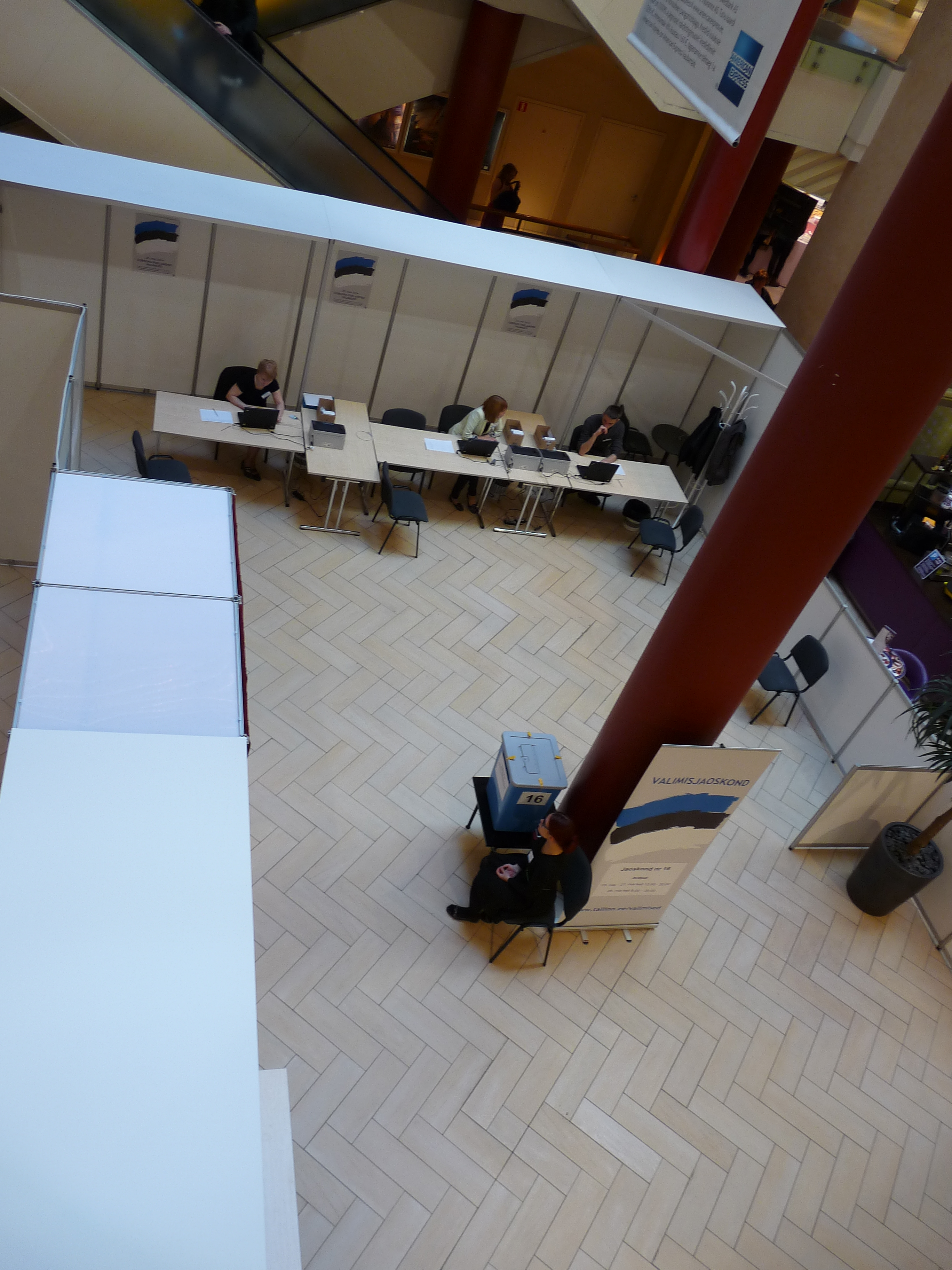 Preliminary elections to European parliament in Solaris Center